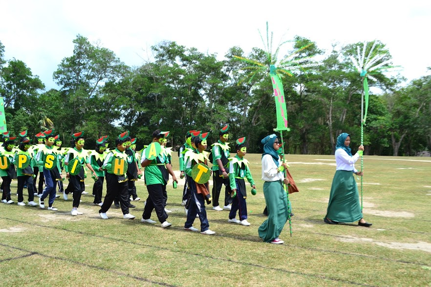 sukan 2018 (3)